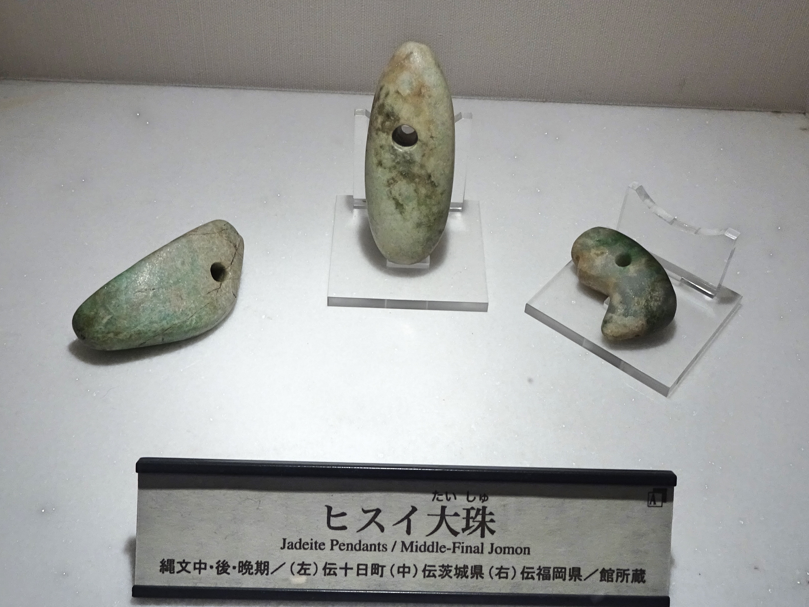 Jadeite Pendants. Middle-Final Jōmon period. Niigata Prefectural Museum of History.